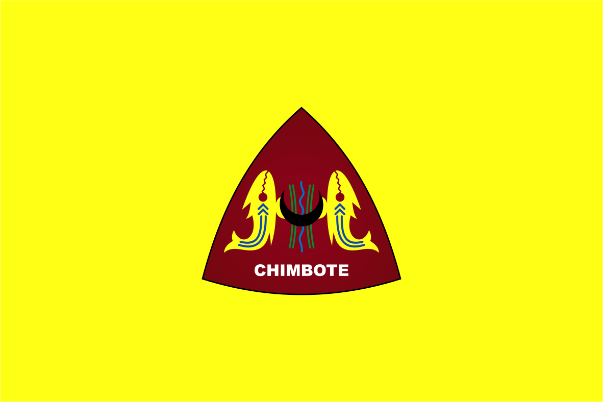 District of Chimbote - Province Santa - Ancash Region